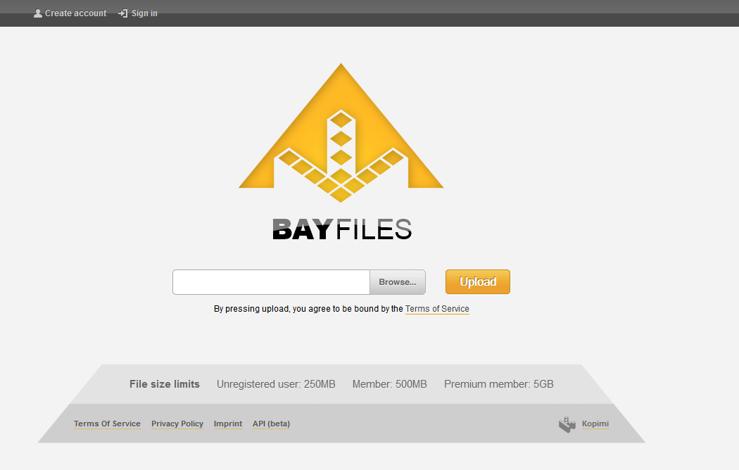 Frontpage of BayFiles website as of 9 January 2012